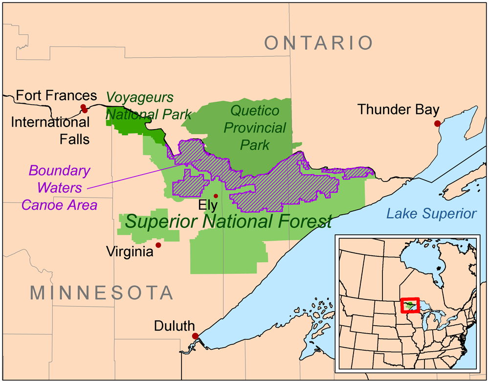 Map showing the location of Superior National Forest, Voyageurs National Park, Boundary Waters Canoe Area, and Quetico Provincial Park.